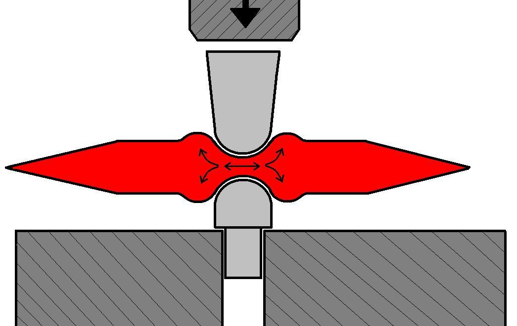 The use of fullers in bladesmithing. The fullers, a set of blacksmithing tools, are represented in light grey. The lower fuller has a square peg which fits into the hole in the anvil, while the upper fuller has a flat surface for hitting with a hammer. The fullers displace material, forcing it sideways and outward from the surface, and at the same time, they make the groove in the blade, also called a fuller.